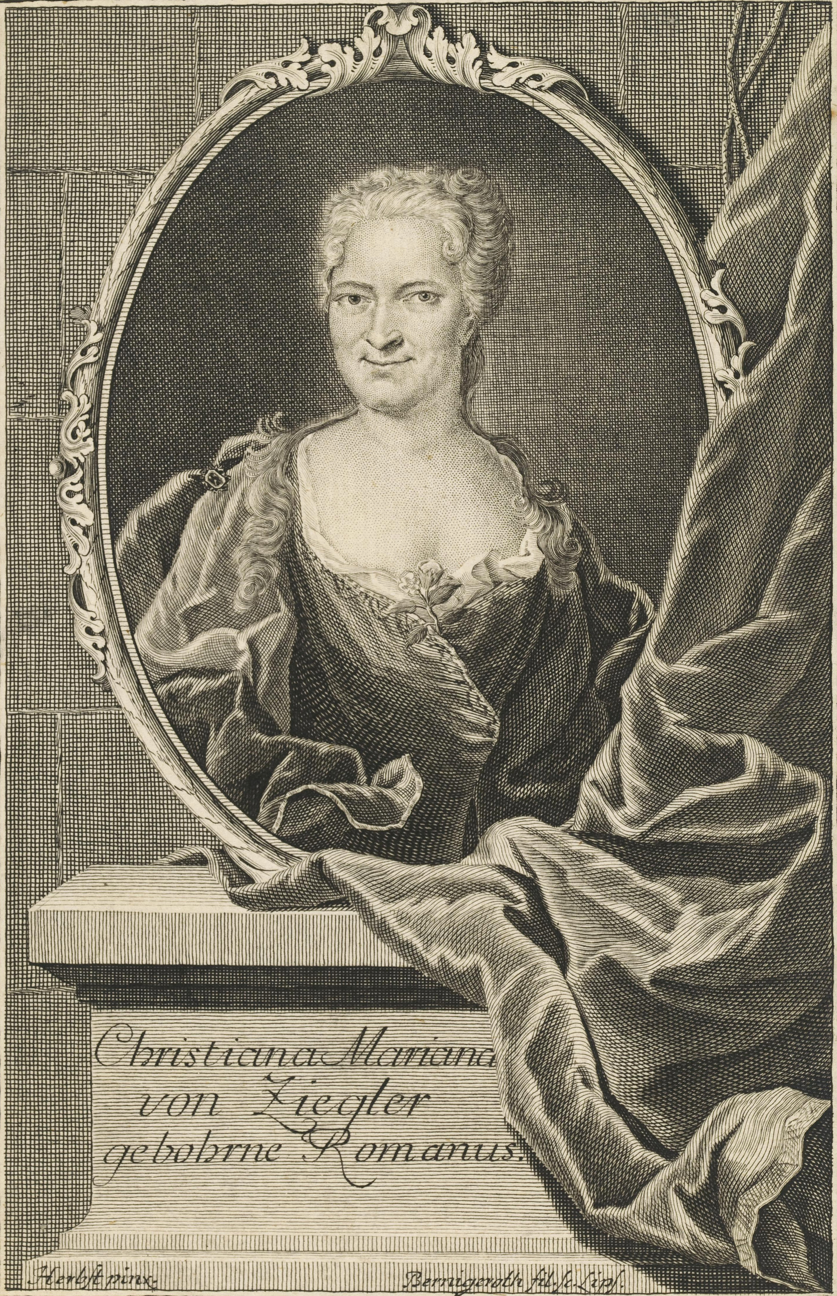 Written mention deleted the image : Christiana Mariana von Ziegler, geborhne Romanus